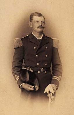 Walter Christmas(-Dirckinck-Holmfeld) (1861-1924), Danish naval officer, writer, dramatist, and theatre manager